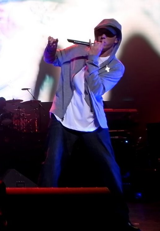 Eminem performing at the DJ hero party on June 1, 2009